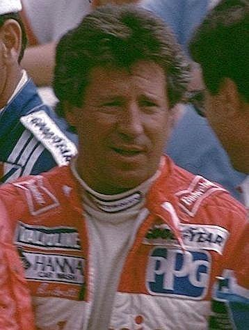 Mario Andretti in 1984. Cropped from flickr picture.